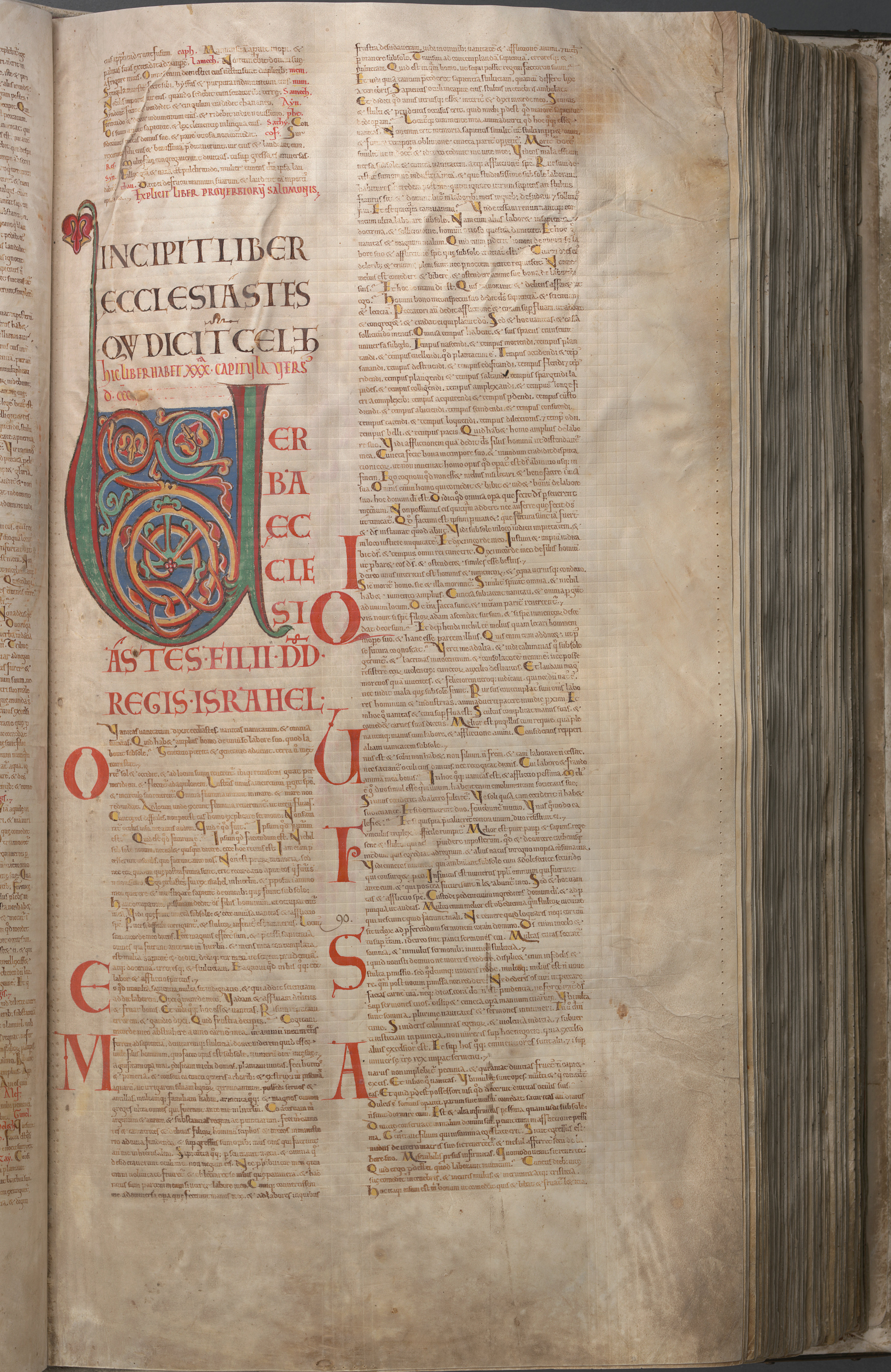 Giant Book) is the largest extant medieval manuscript in the world. It is also known as the Devil's Bible because of a large illustration of the devil on the inside and the legend surrounding its creation. It is thought to have been created in the early 13th century in the Benedictine monastery of Podlažice in Bohemia (modern Czech Republic). It contains the Vulgate Bible as well as many historical documents all written in Latin. During the Thirty Years' War in 1648, the entire collection was taken by the Swedish army as plunder, and now it is preserved at the National Library of Sweden in Stockholm, though it is not normally on display.